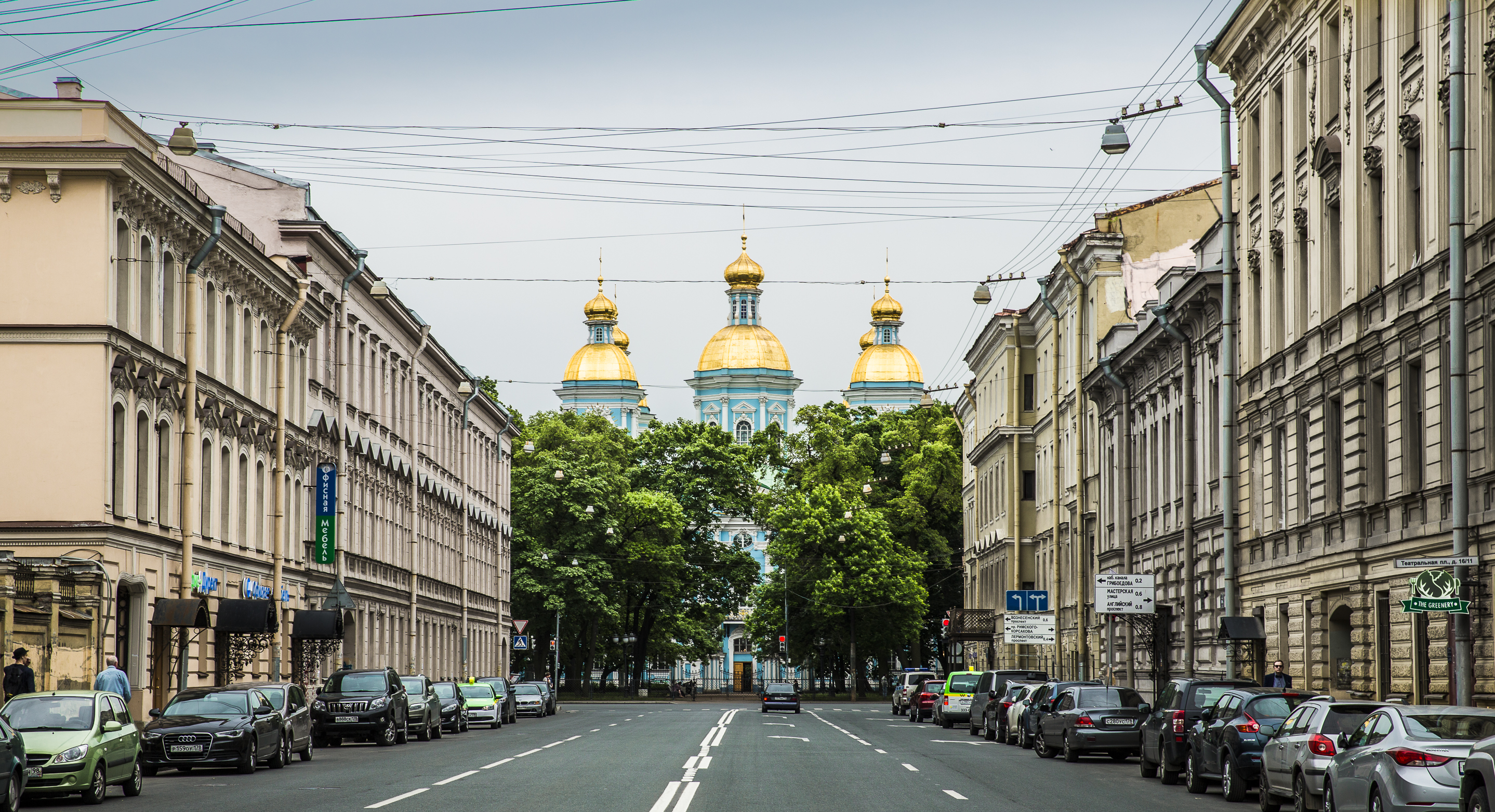 St. Nicholas Naval Cathedral, Sailors' Cathedral